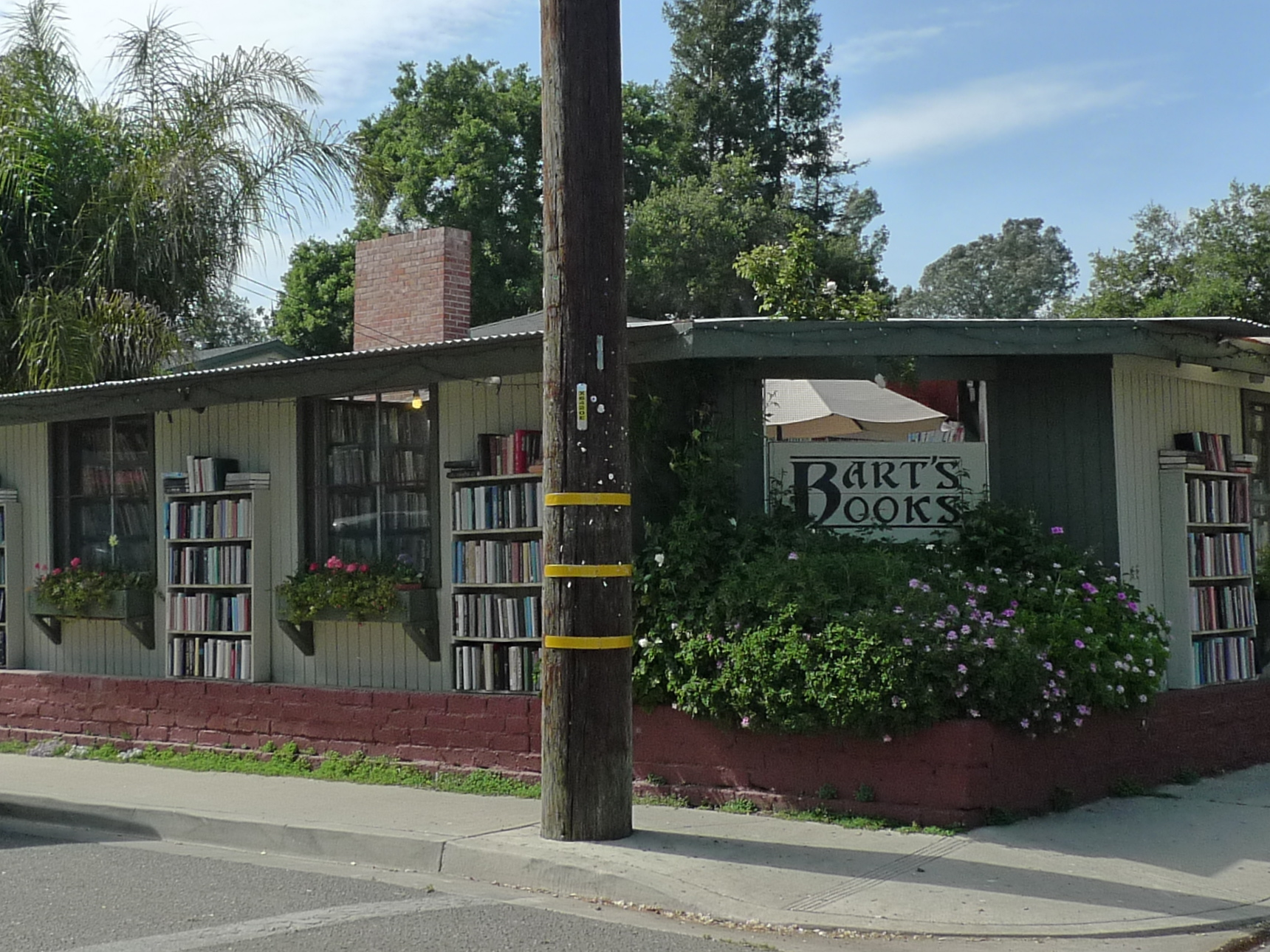 A photo of Bart's Books in Ojai, California.